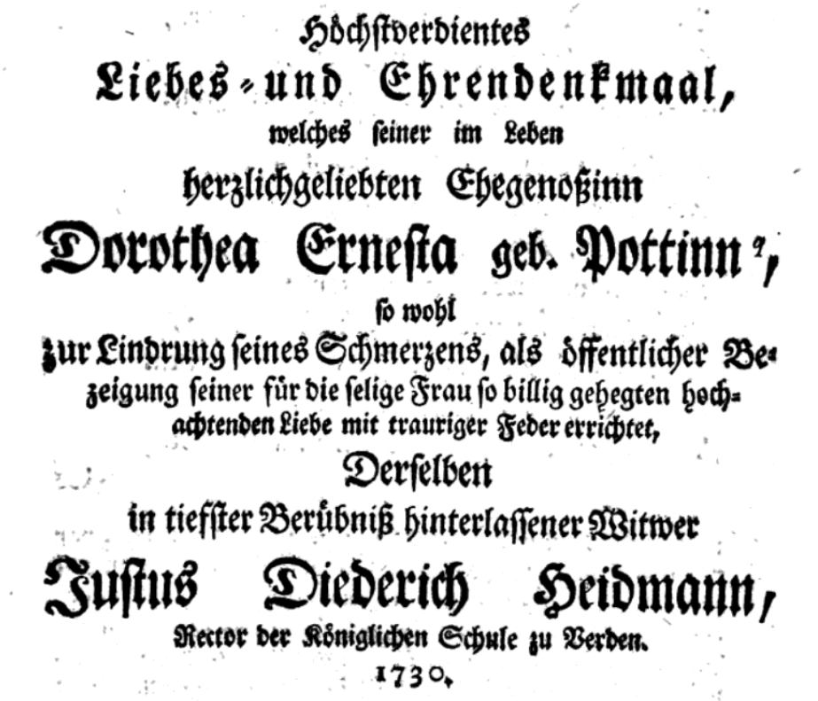 Justus Diederich Heidmann 1730